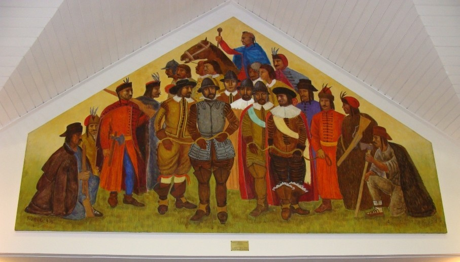 Combat on Álmosd (fresco)